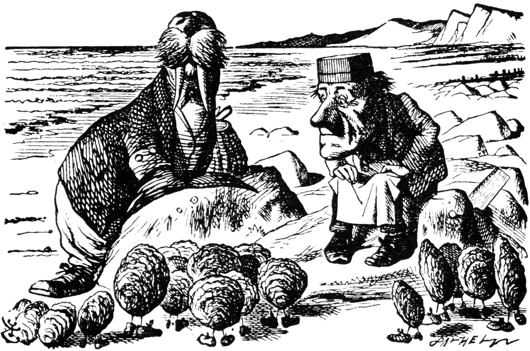 A scene from "The Walrus and the Carpenter", by Lewis Carroll, drawn by Sir John Tenniel in 1871.